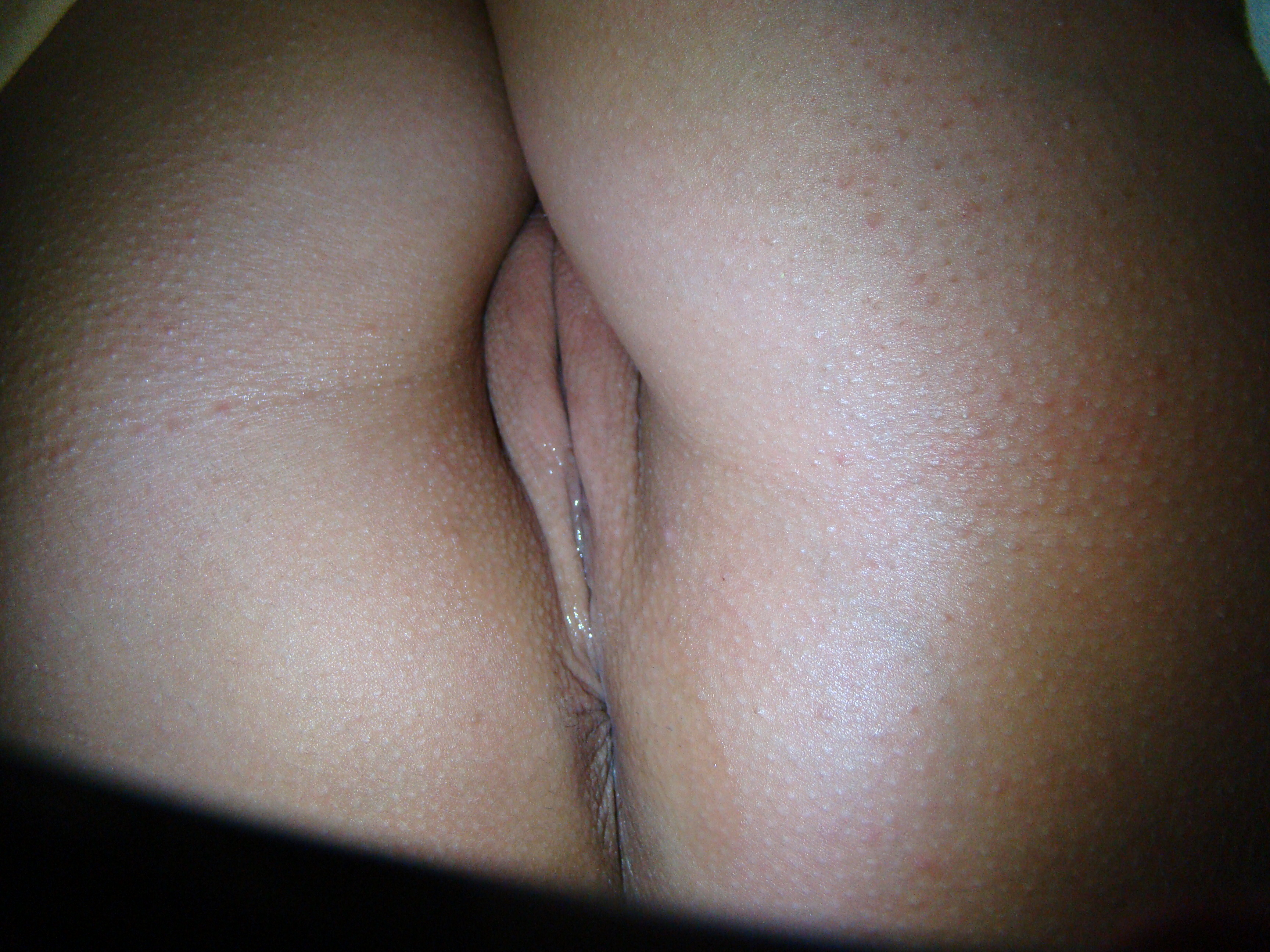 vagina